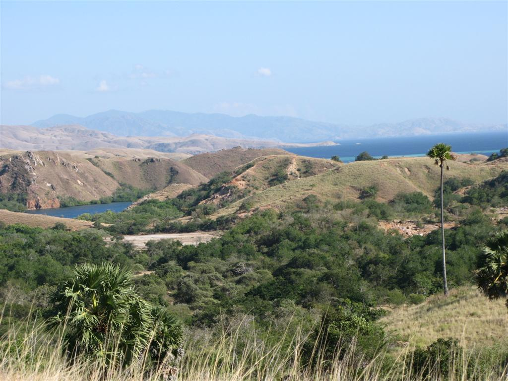 Rinca Island, Indonesia, July 2007